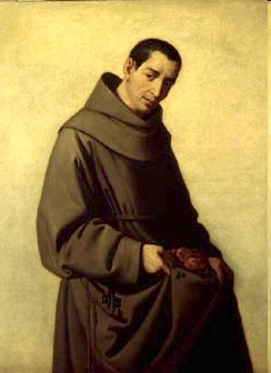 Didacus of Alcalá